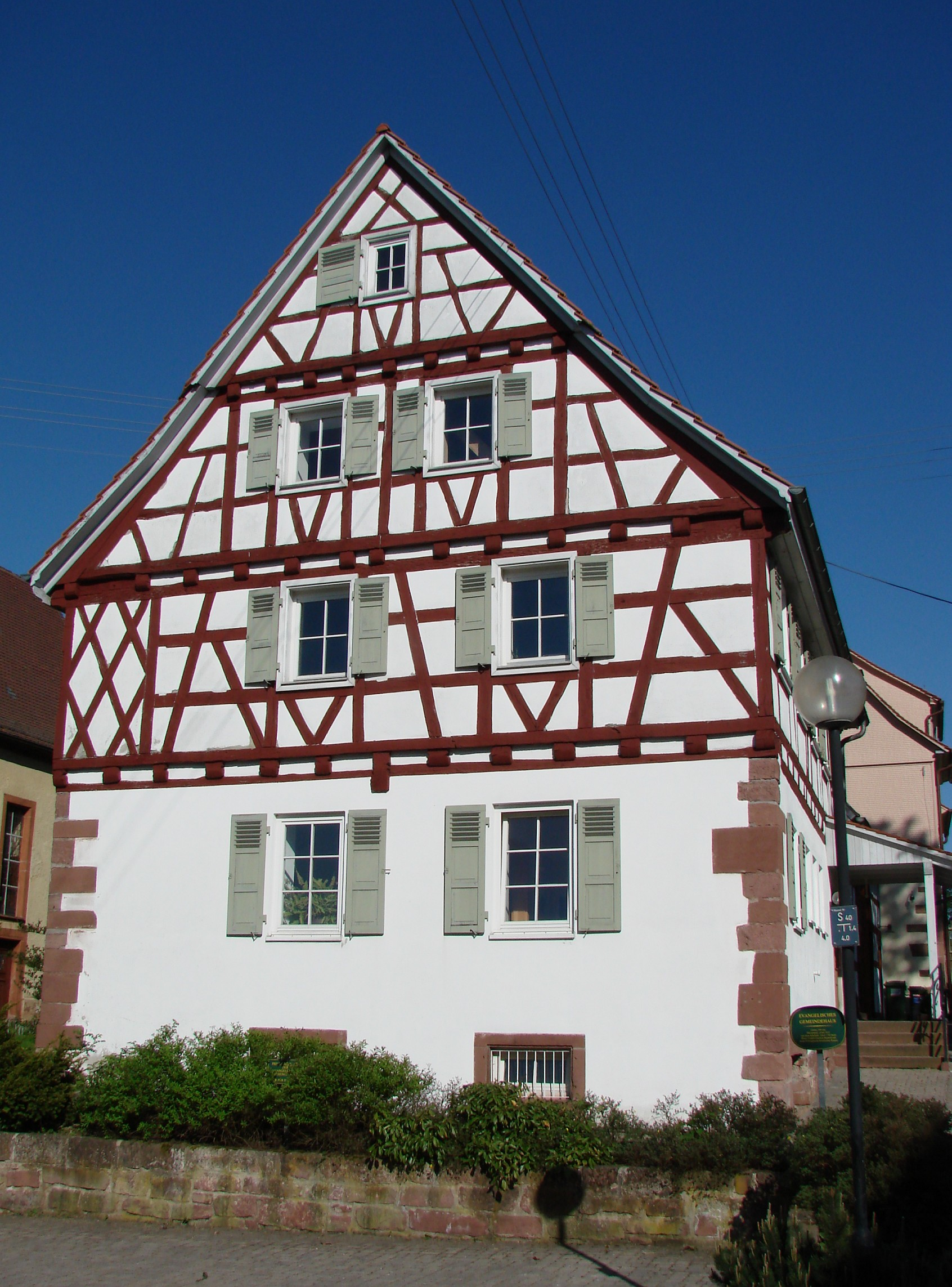 Parish house in the village of Möttlingen, Bad Liebenzell, Germany